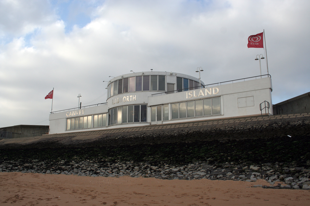 Labworth Restaurant and Beach Bistro on Canvey Island, Essex, England viewed from the south east.